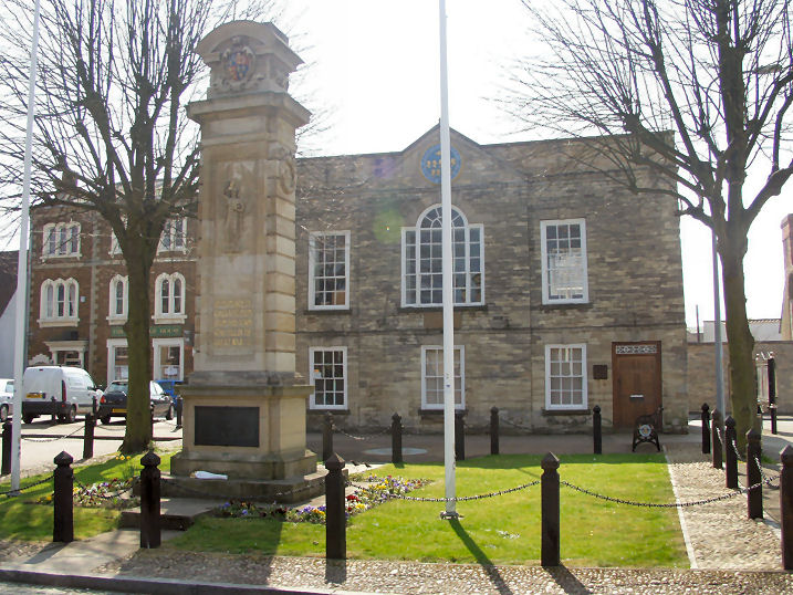 Higham Ferrers Council Building.jpg